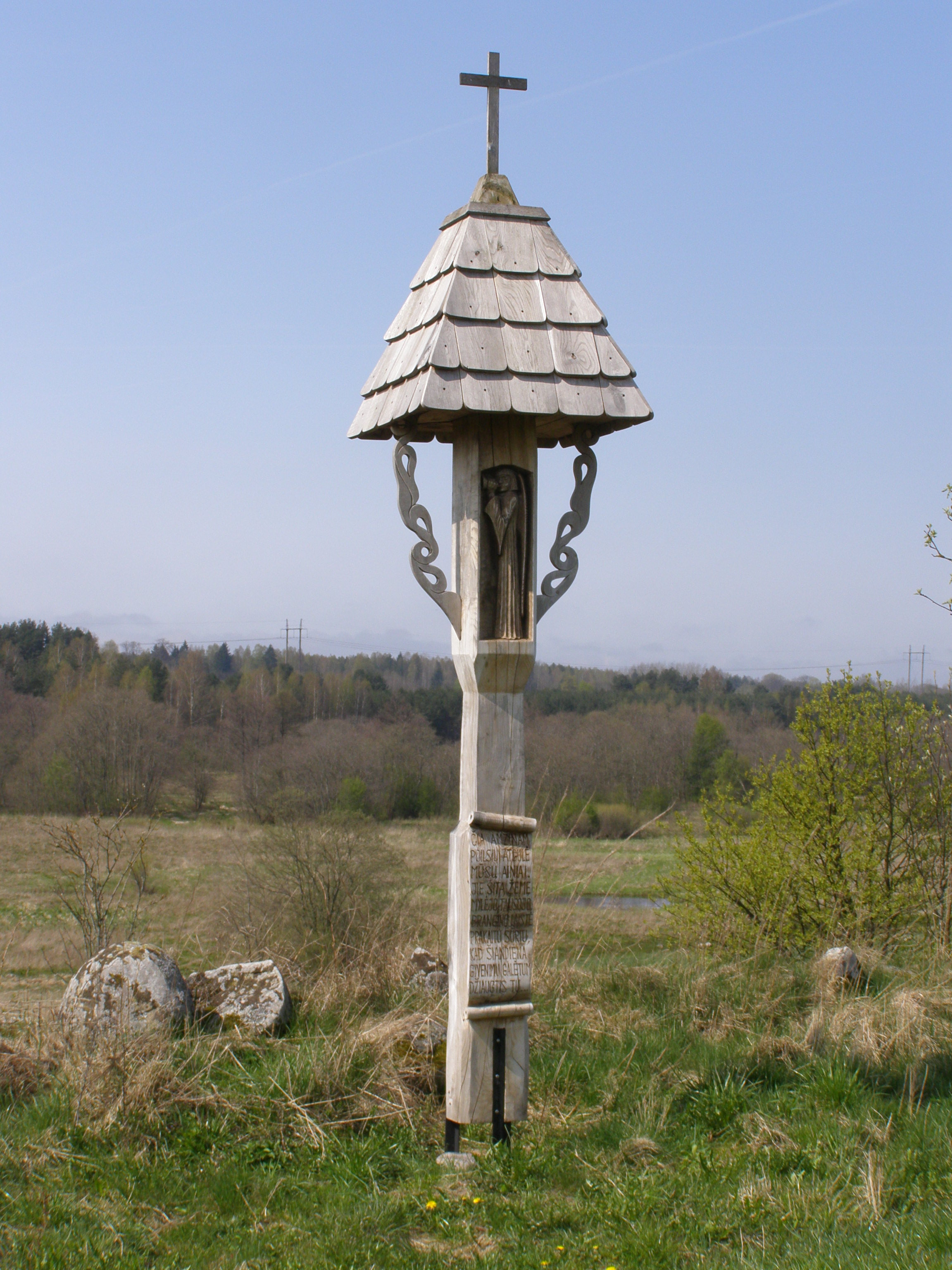 Senoji Įpiltis cemetery, Kretinga district, Lithuania